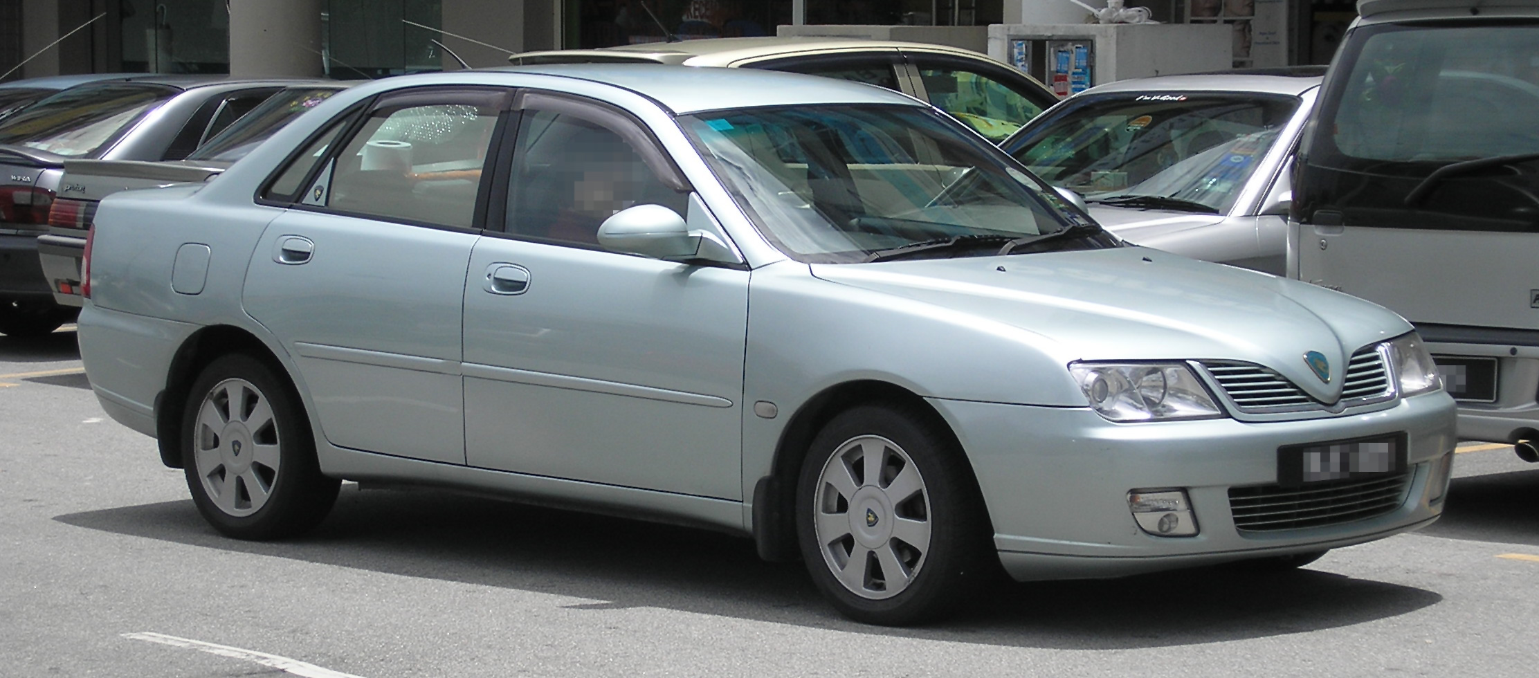 The front of a first generation Proton Waja, in Serdang, Malaysia.